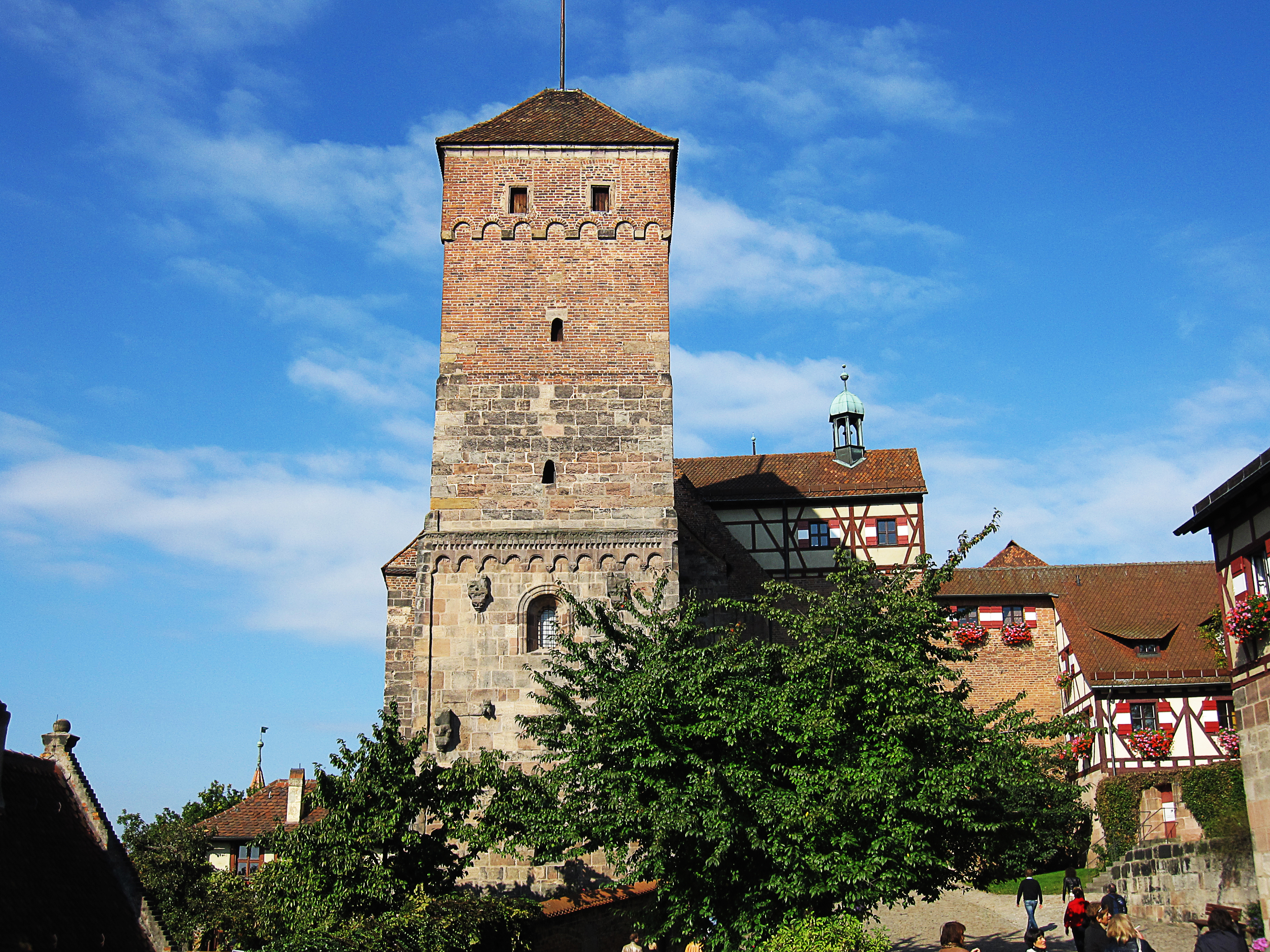 The Nurnberg's Tower